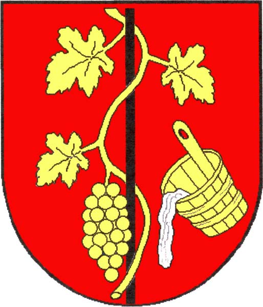 Municipal coat of arms of Stavěšice village, Hodonín District, Czech Republic.